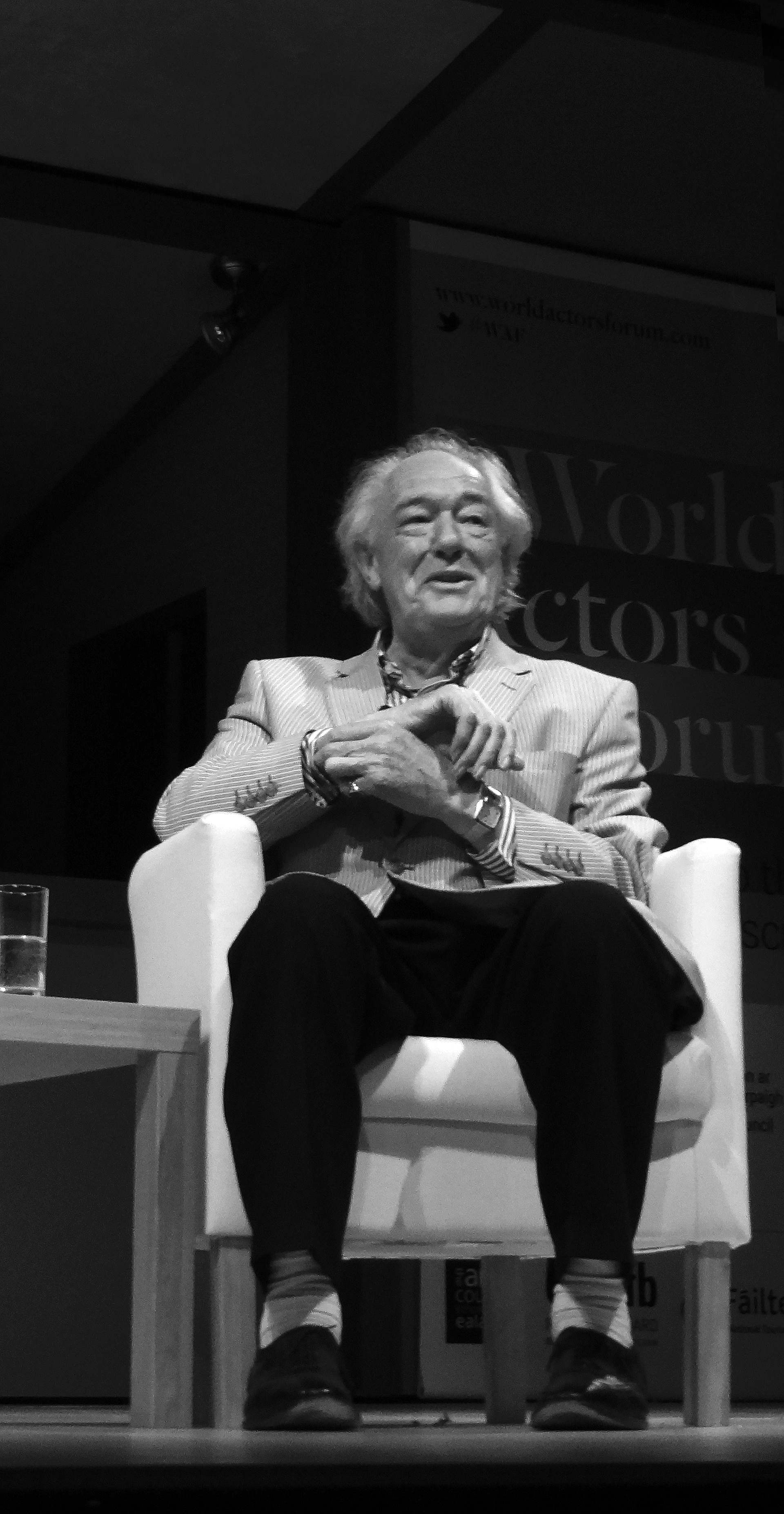 On stage Q&A